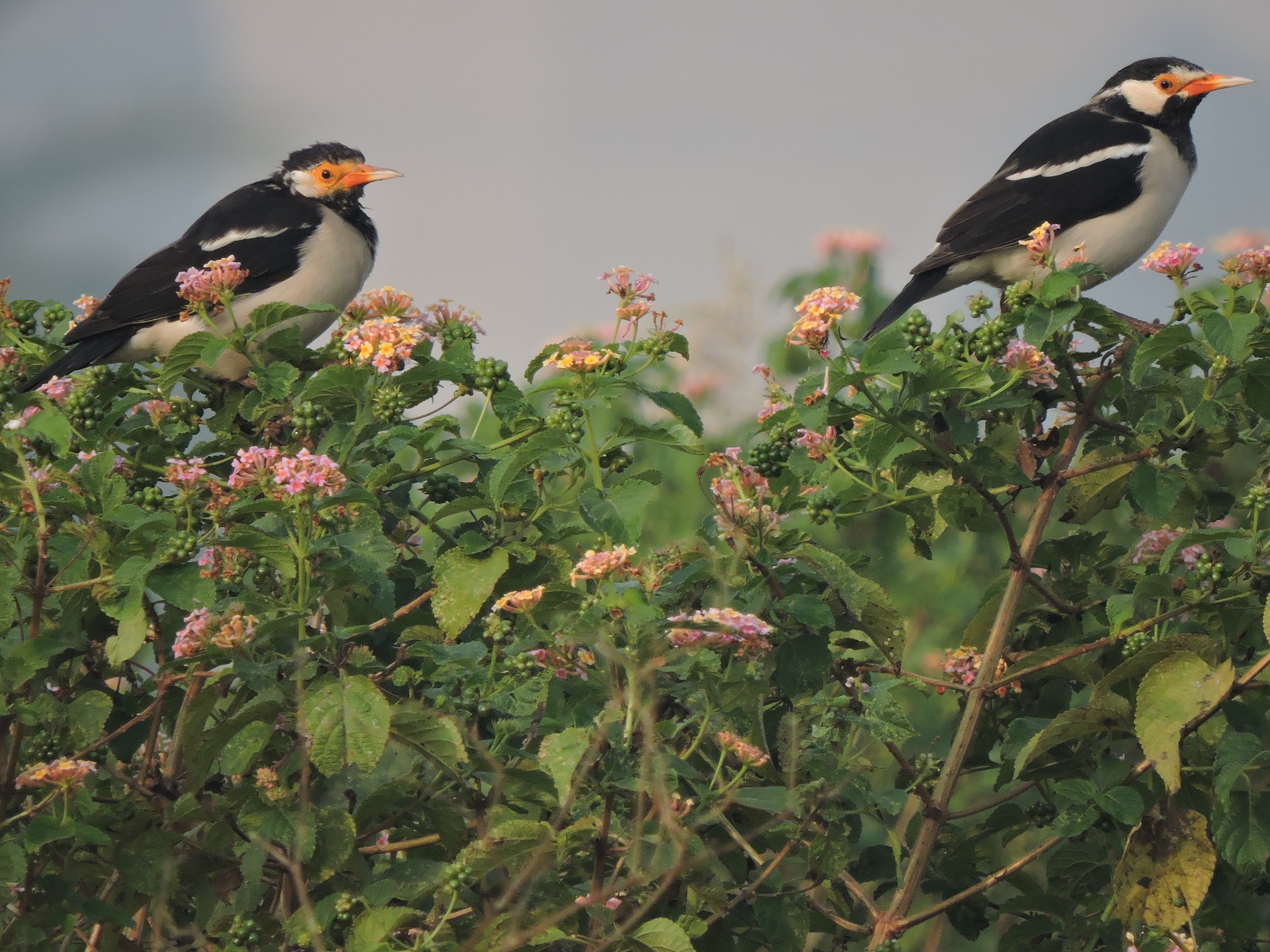 Pied myna, Chappad Chidi , Mohali, Punjab, India